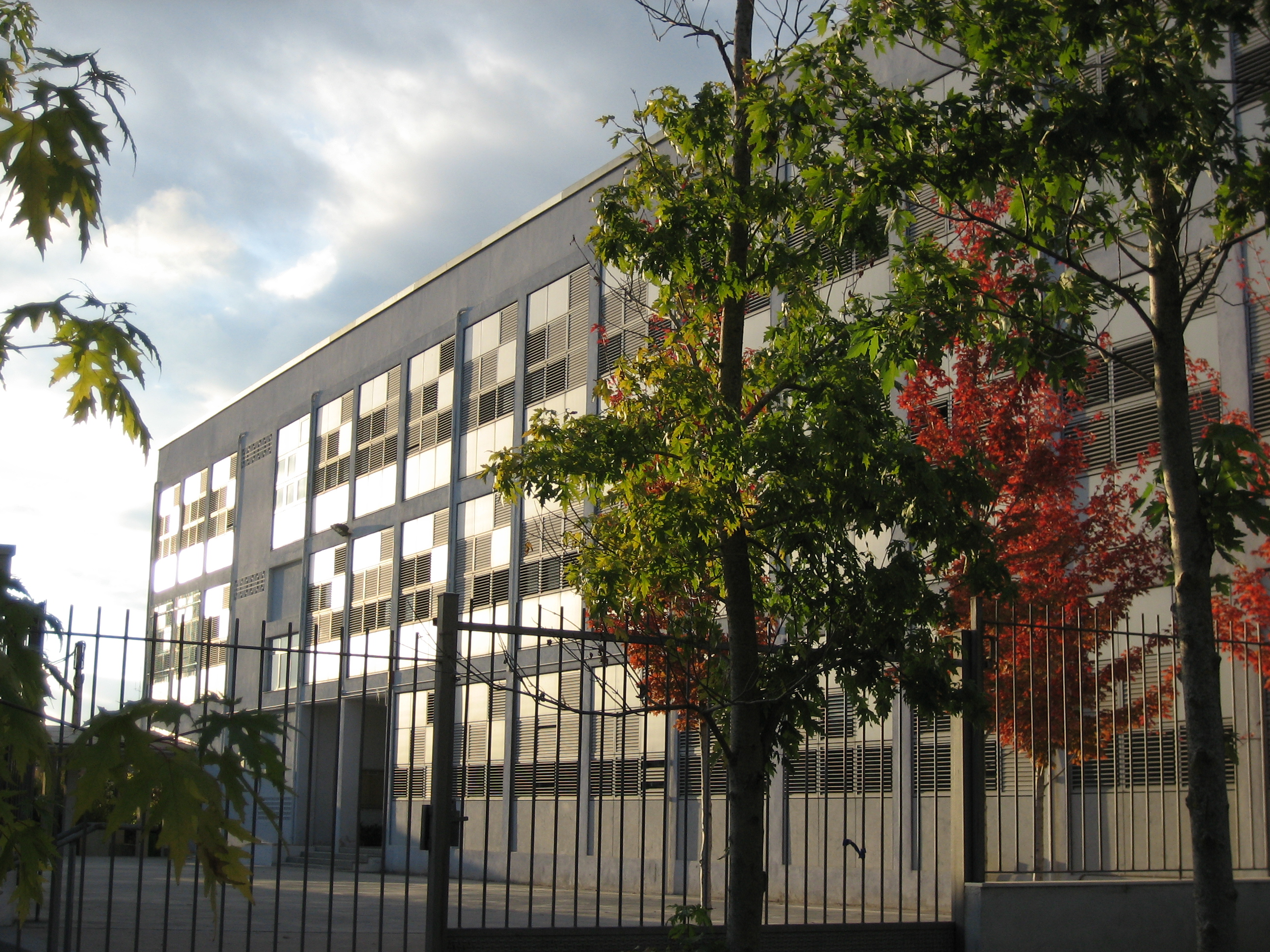 IES Jaume Vicens Vives new buikding